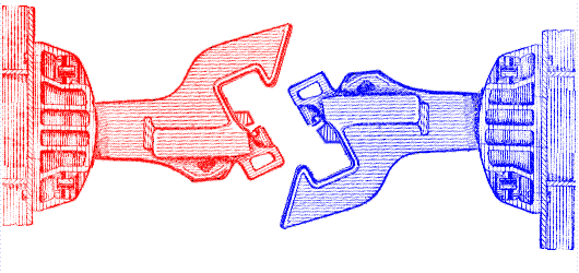 SA3 automatic couler. First frame of the animated scheme illustrating its principle of action.